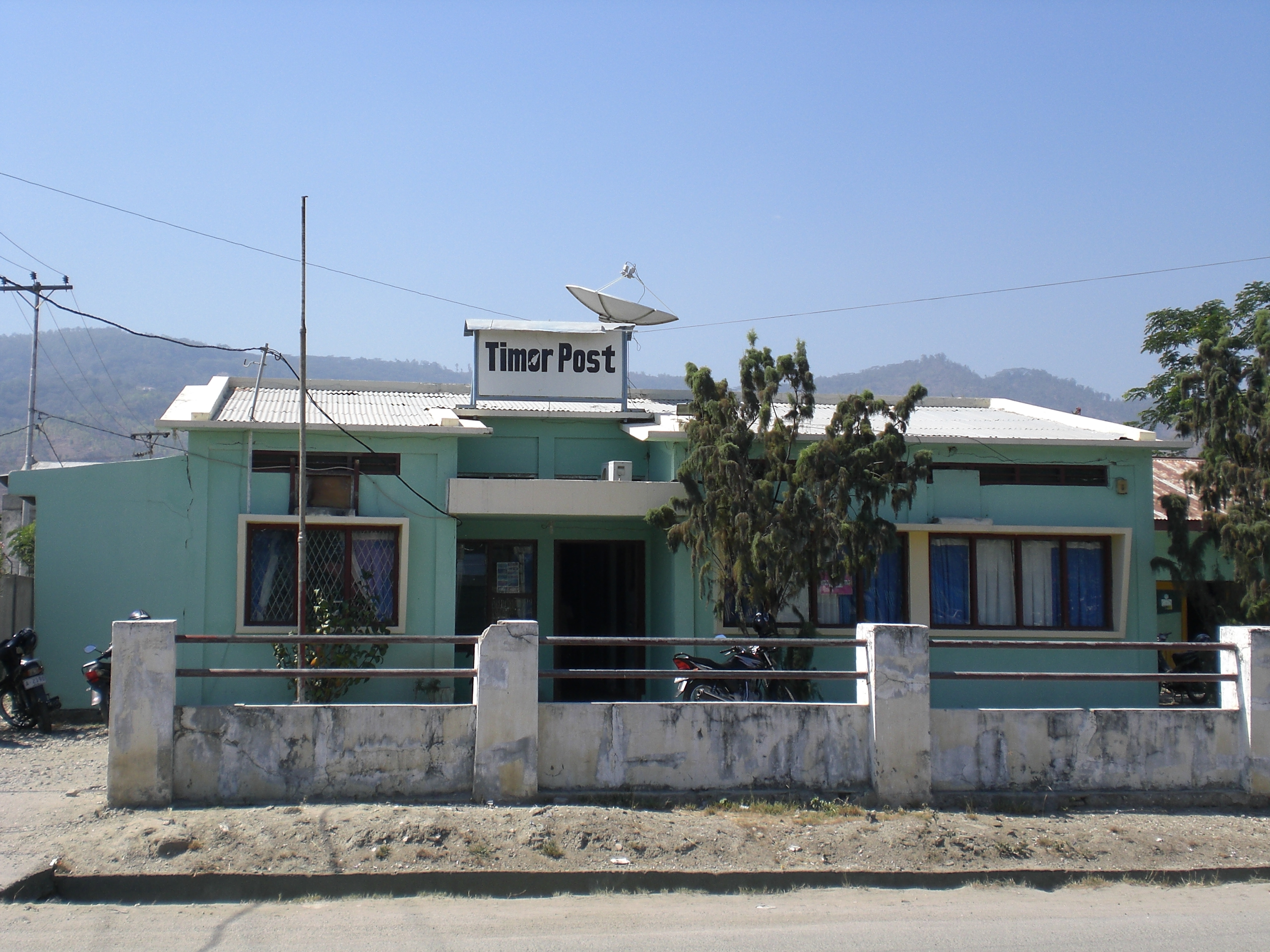 Building of newspaper "Timor Post" in Dili/Timor-Leste